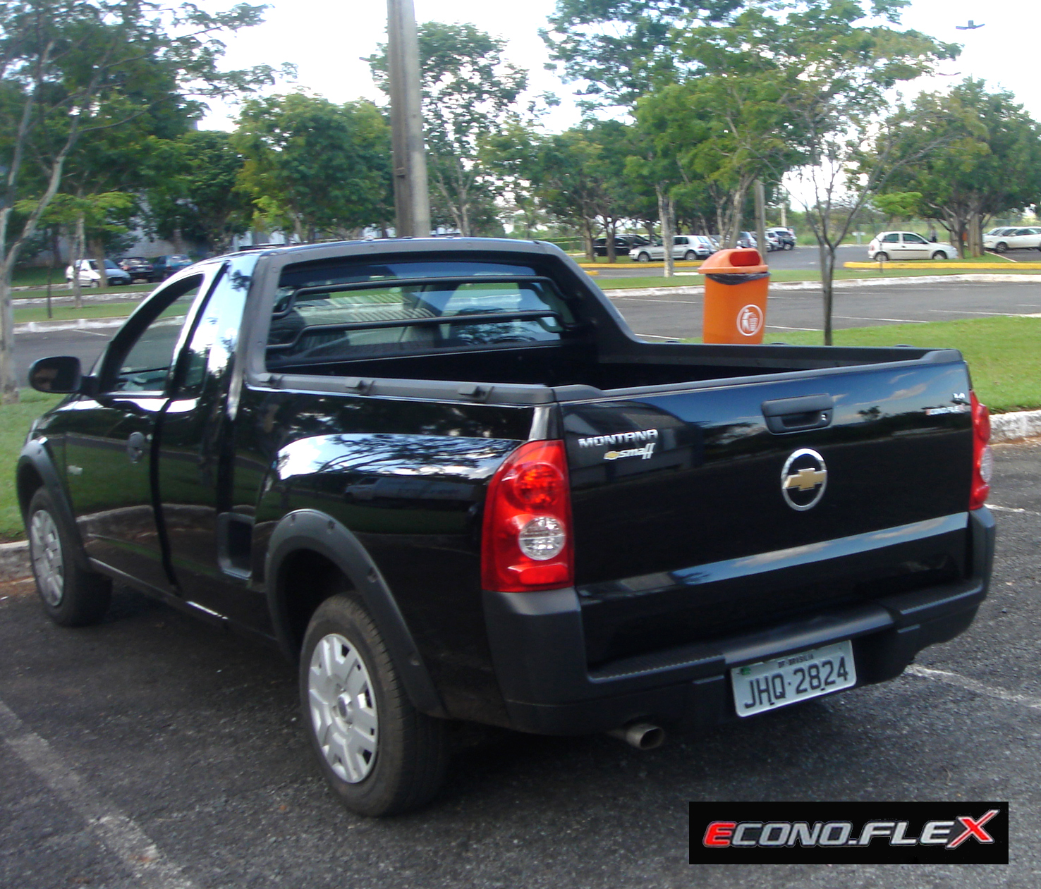 Brazilian flex-fuel version of Chevrolet Montana pickup EconoFlex 1.4, shown rear view with EconoFlex version logo